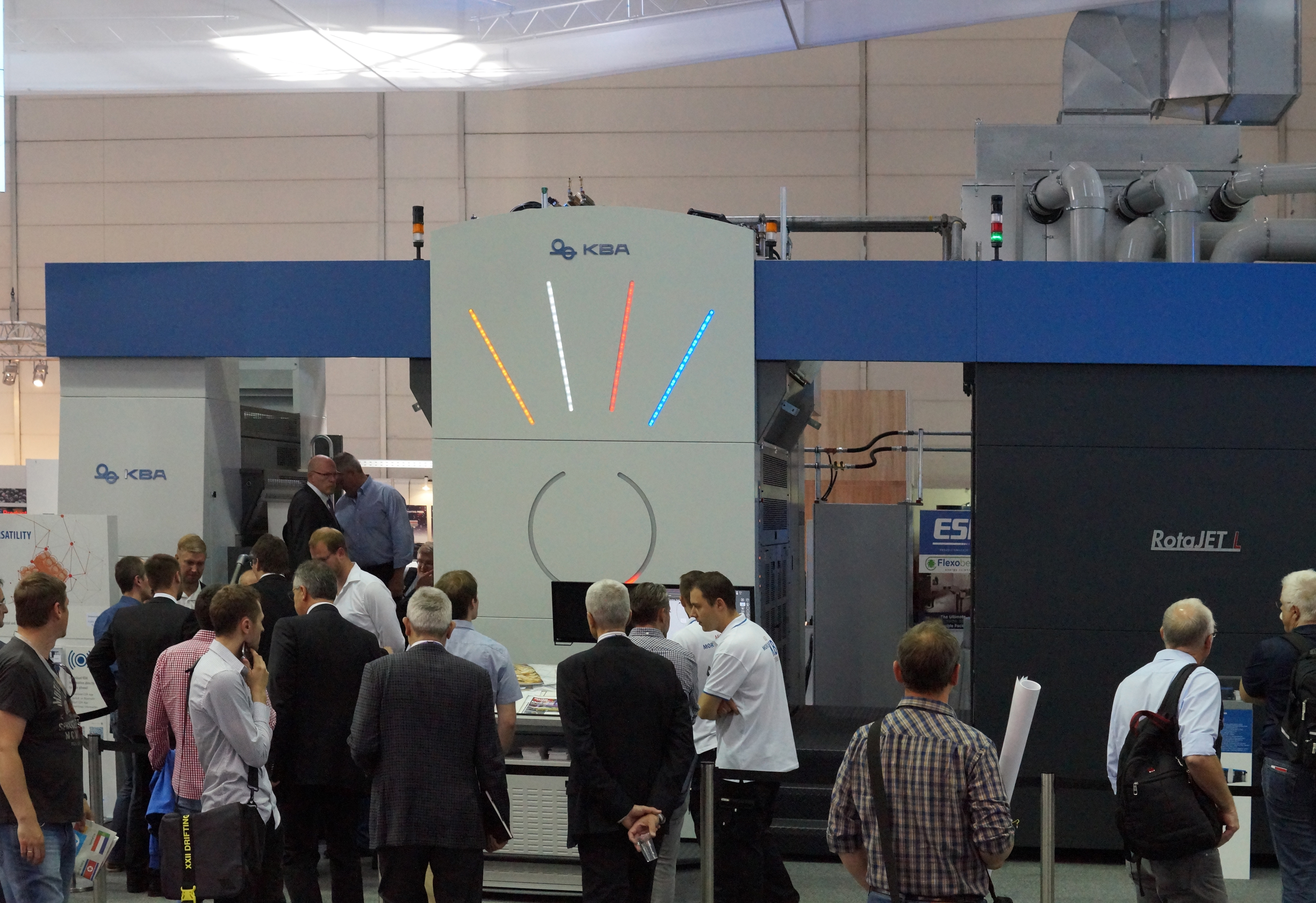 Following the example of large web offset presses, this high speed inket press for newspapers, magazines and decors is a sturdy and low-vibration construction which is able to print four colors in perfect register.